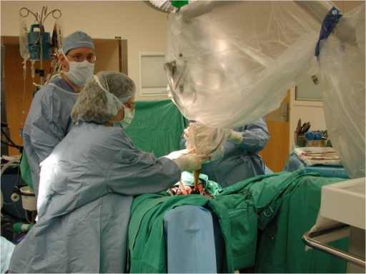 Intraoperative photograph showing a radiosurgery system.